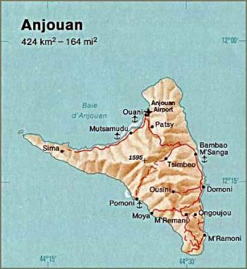 Anjouan. From The Indian Ocean Atlas, CIA, 1976.